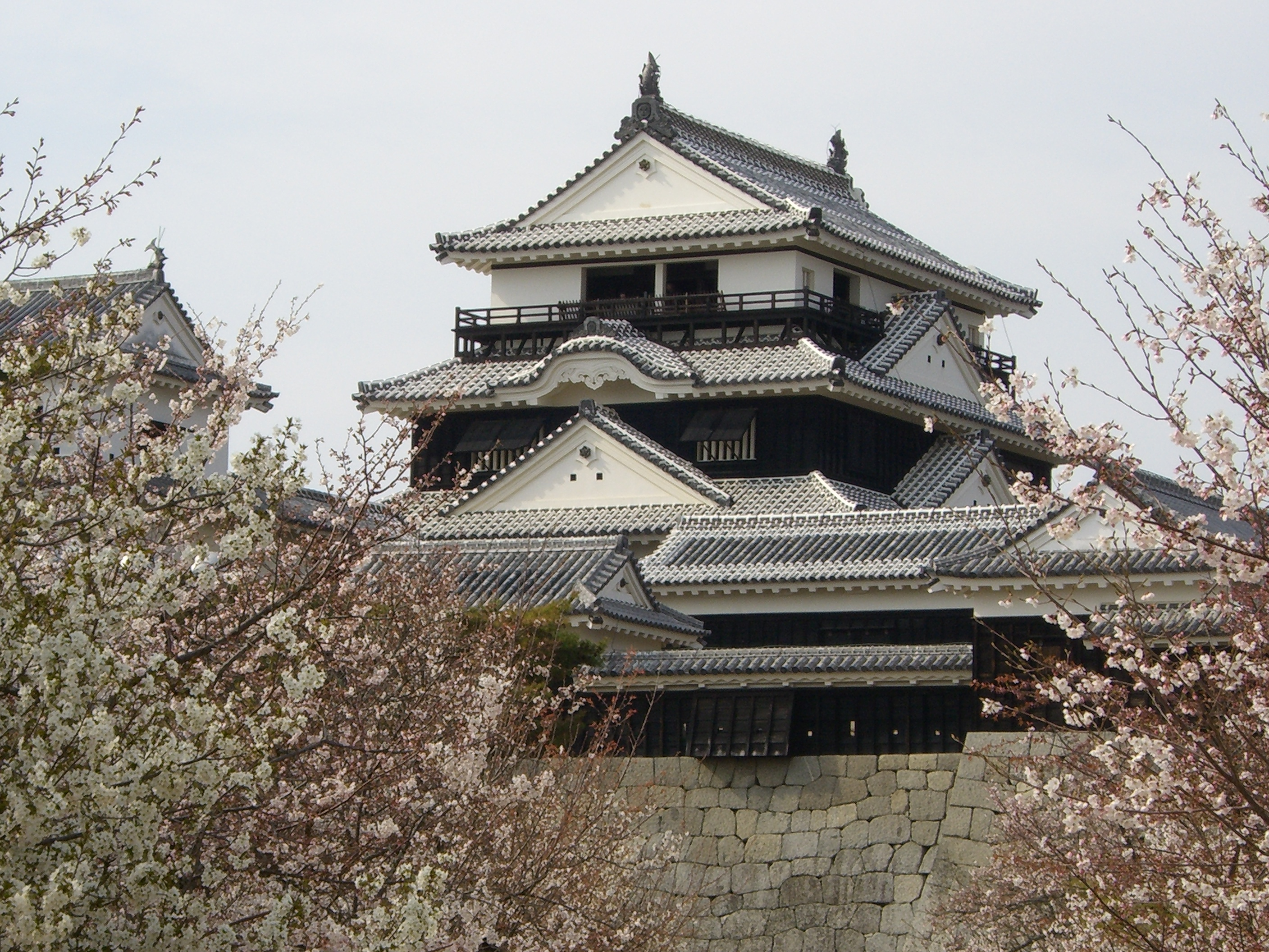 "Matsuyama Castle tower and Cherry blossoms (Ehime JAPAN)":Two fabulous dolphin-like fish are at the ends of the pinnacle of the roof and give the architecture of the castle its dignity.